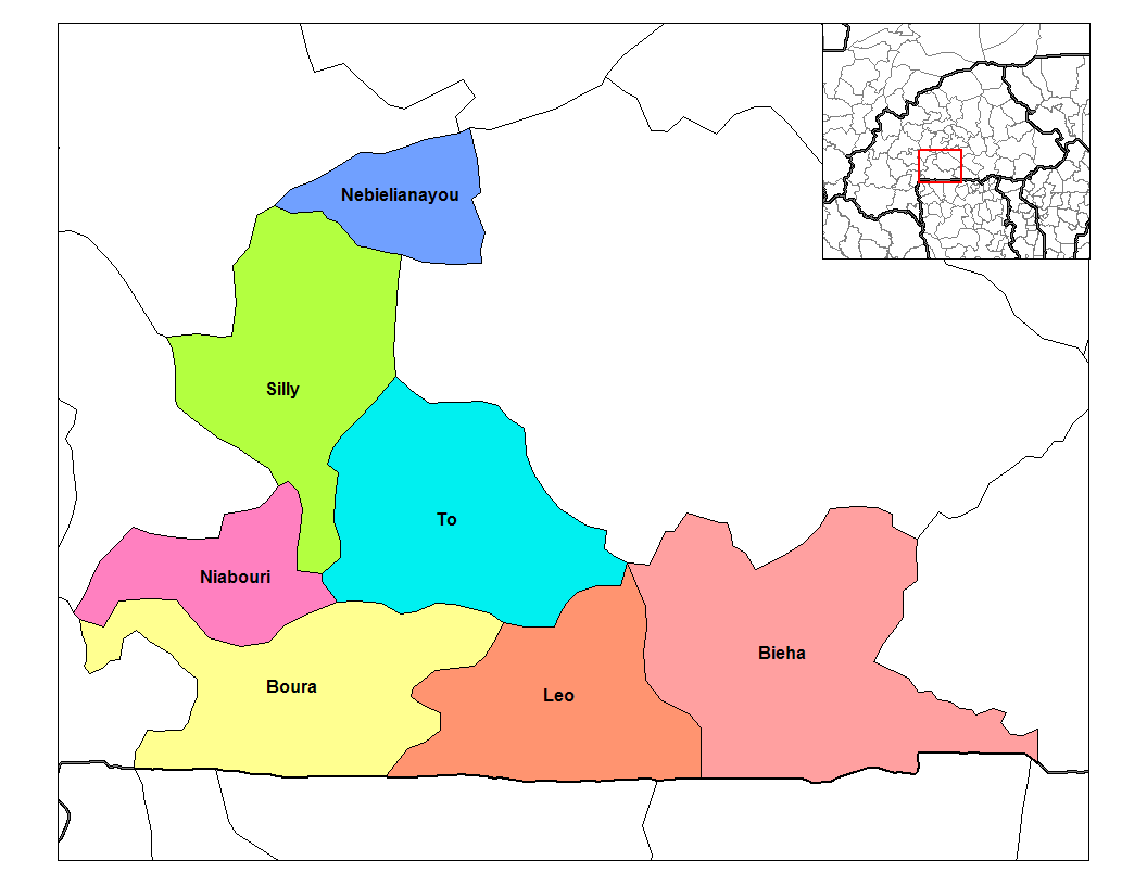 This map has been uploaded by Osiris fancy from to enable the Wikimedia Atlas of the World. Original uploader to was Rarelibra. Osiris fancy is not the creator of this map. Licensing information is below. Map of the departments of Sissili province in Burkina Faso. Created by Rarelibra 03:36, 30 September 2006 (UTC) for public domain use, using MapInfo Professional v8.5 and various mapping resources.